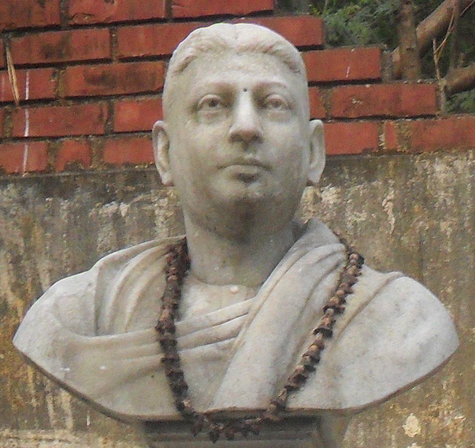 Bust Of Jatindra Mohan Sengupta in JM Sen hall